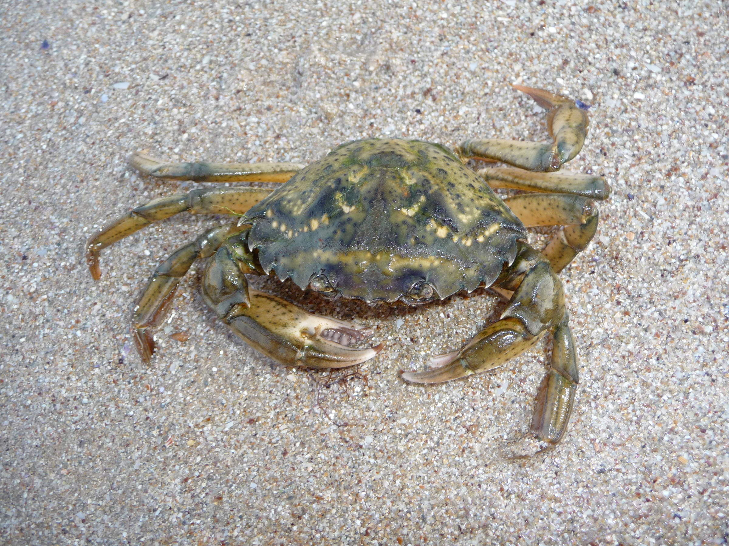 Male Mediterranean green crab on a night beach. The Black sea.